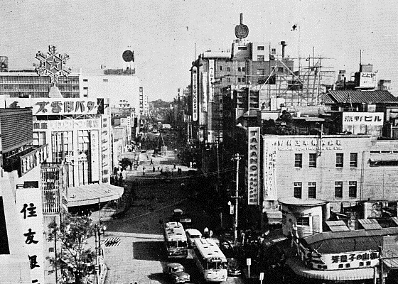 Shinjuku circa 1960